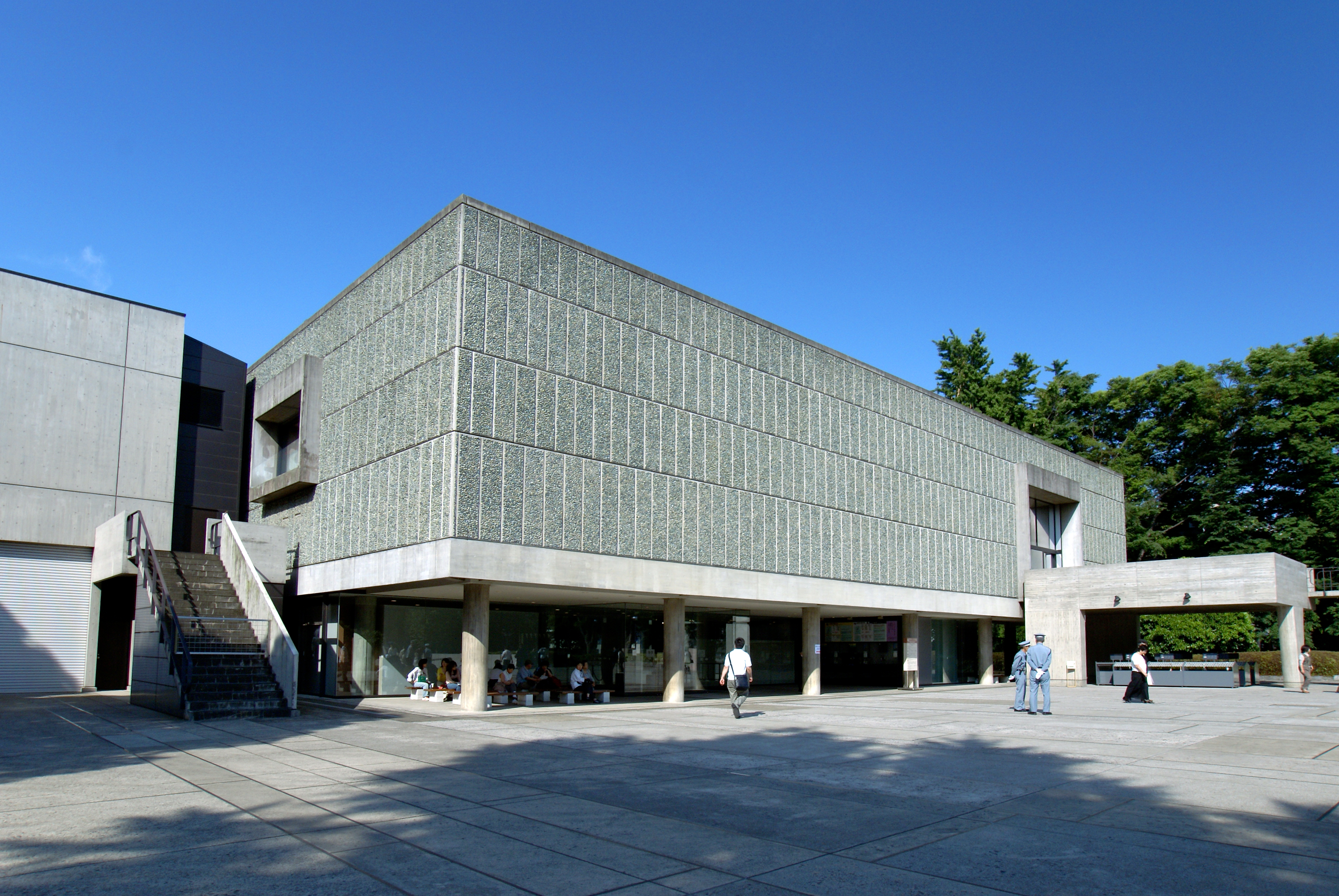 National Museum of Western Art in Ueno, Taito-ku, Tokyo, Japan